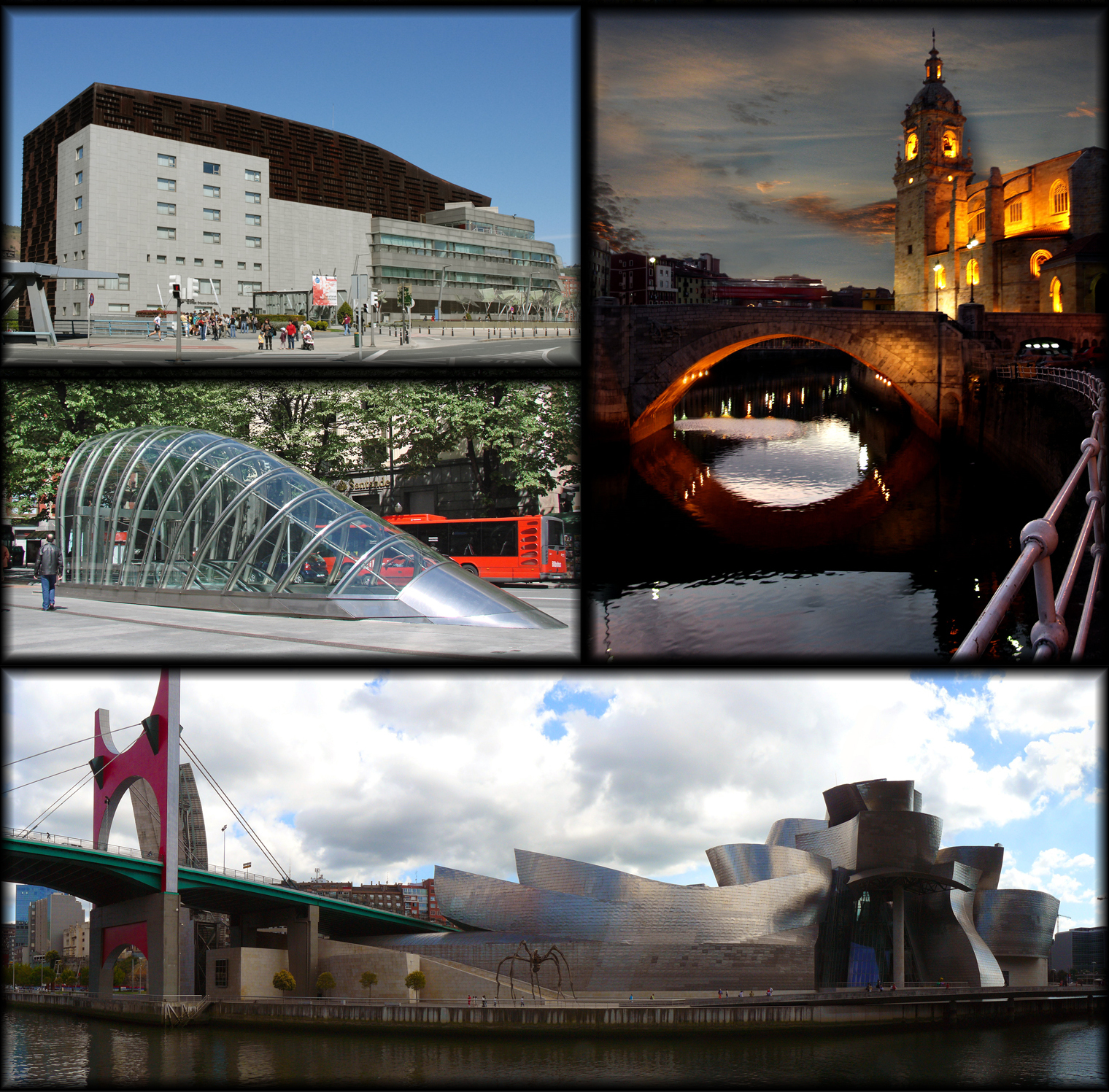 Bilbao infobox collage